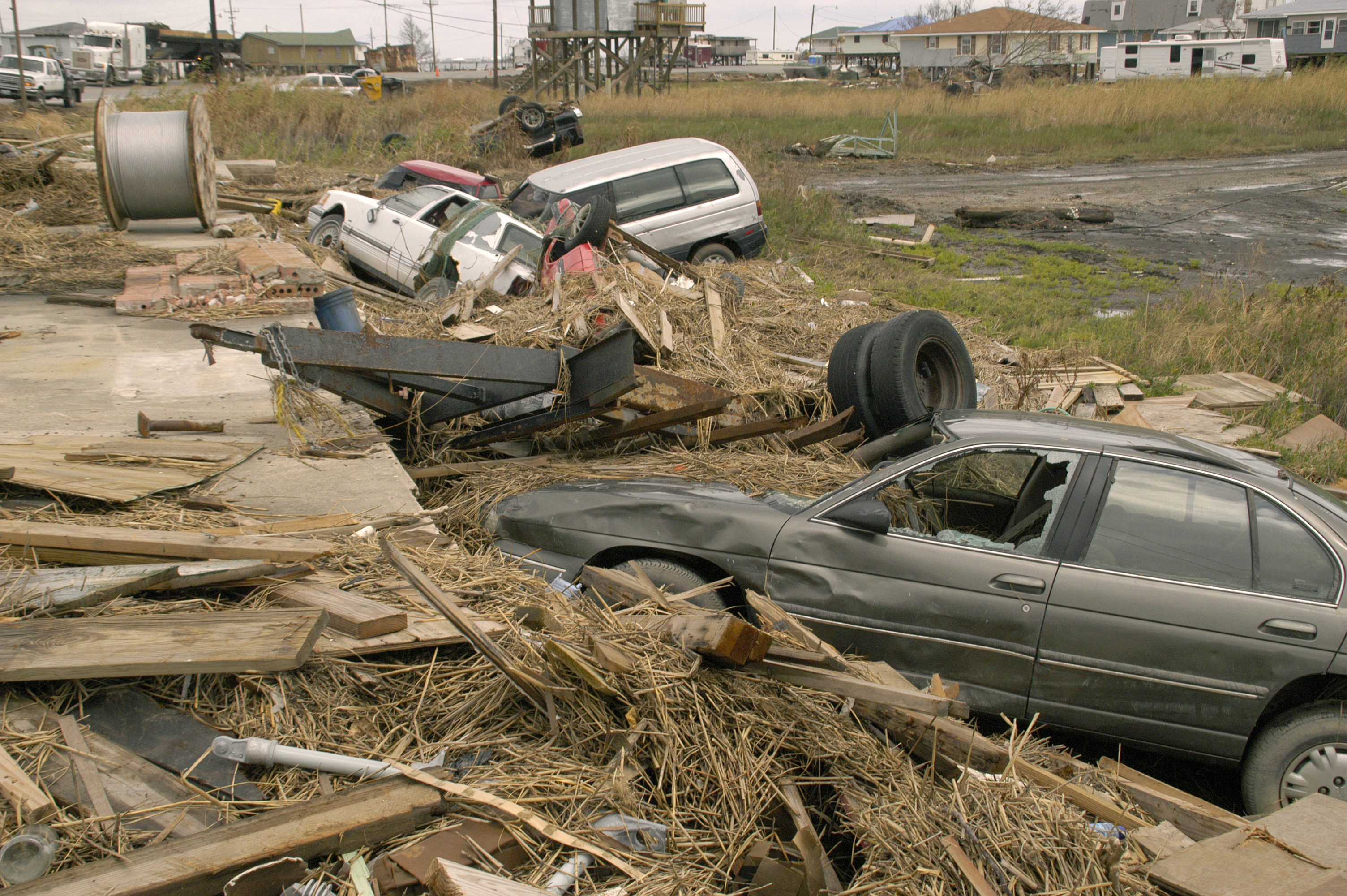 Grand Isle, LA, 11-20-05 -- Because the debris is a mixture of materials, debris sorting and collection is complicated. FEMA covers Debris removal under the public assistance program. Streets and roads must be cleared before residents can be allowed back in. MARVIN NAUMAN/FEMA photo